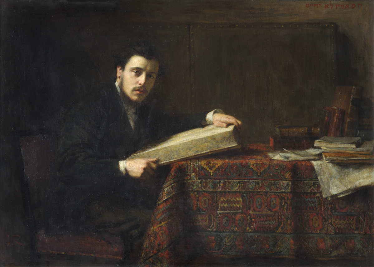 Reid, George; William Robertson Smith (1846-1894), Fellow, University Librarian (1886-1889), Adams Professor of Arabic (1889-1894), Editor of 'Encyclopaedia Britannica'; Christ's College, University of Cambridge